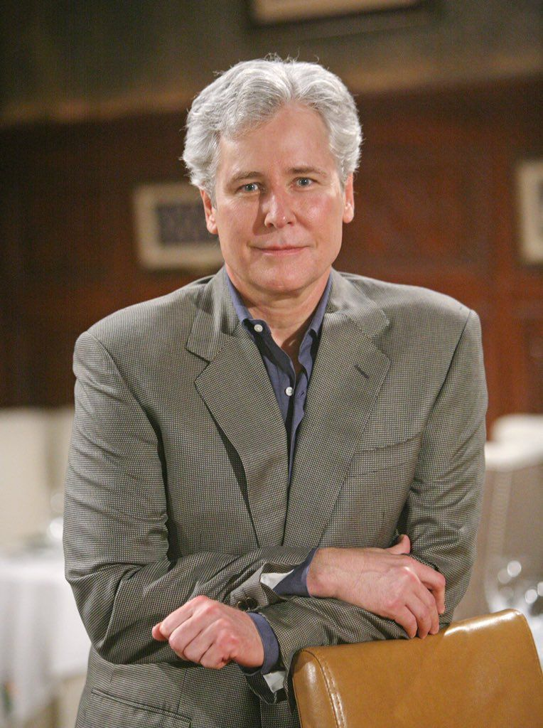 Michael is a leader in the day time drama we call soap operas. Solid performances.